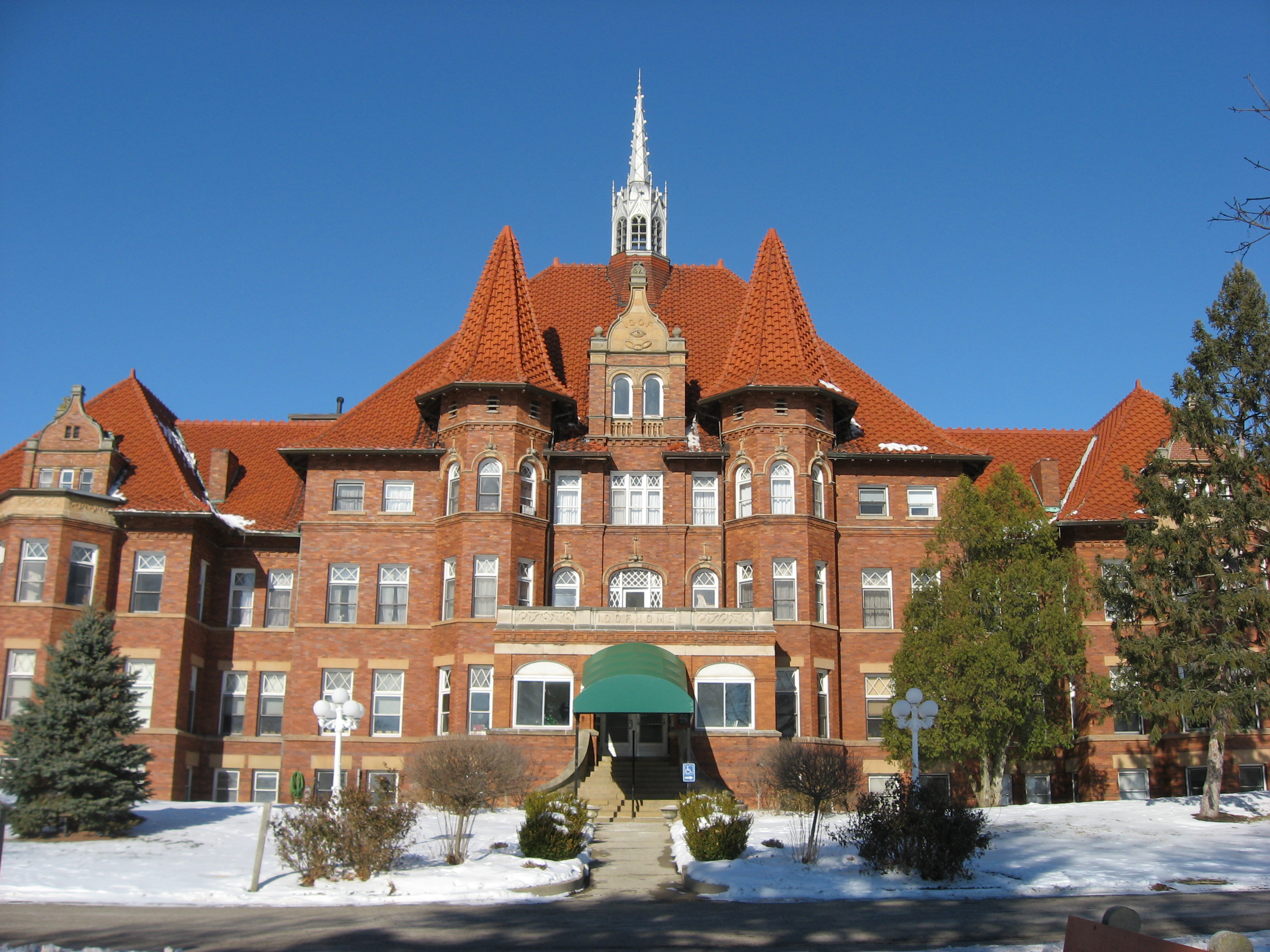 Front of the main building of the Odd Fellows' Home for Orphans, Indigent and Aged, located at 404 E. McCreight Avenue in Springfield, Ohio, United States. Built in 1881, it is listed on the National Register of Historic Places.